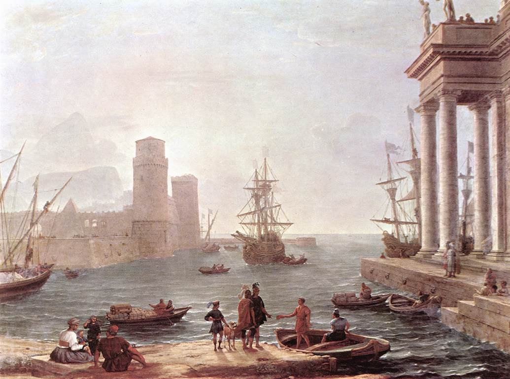 Port Scene with the Departure of Odysseus from the Land of the Pheacians.